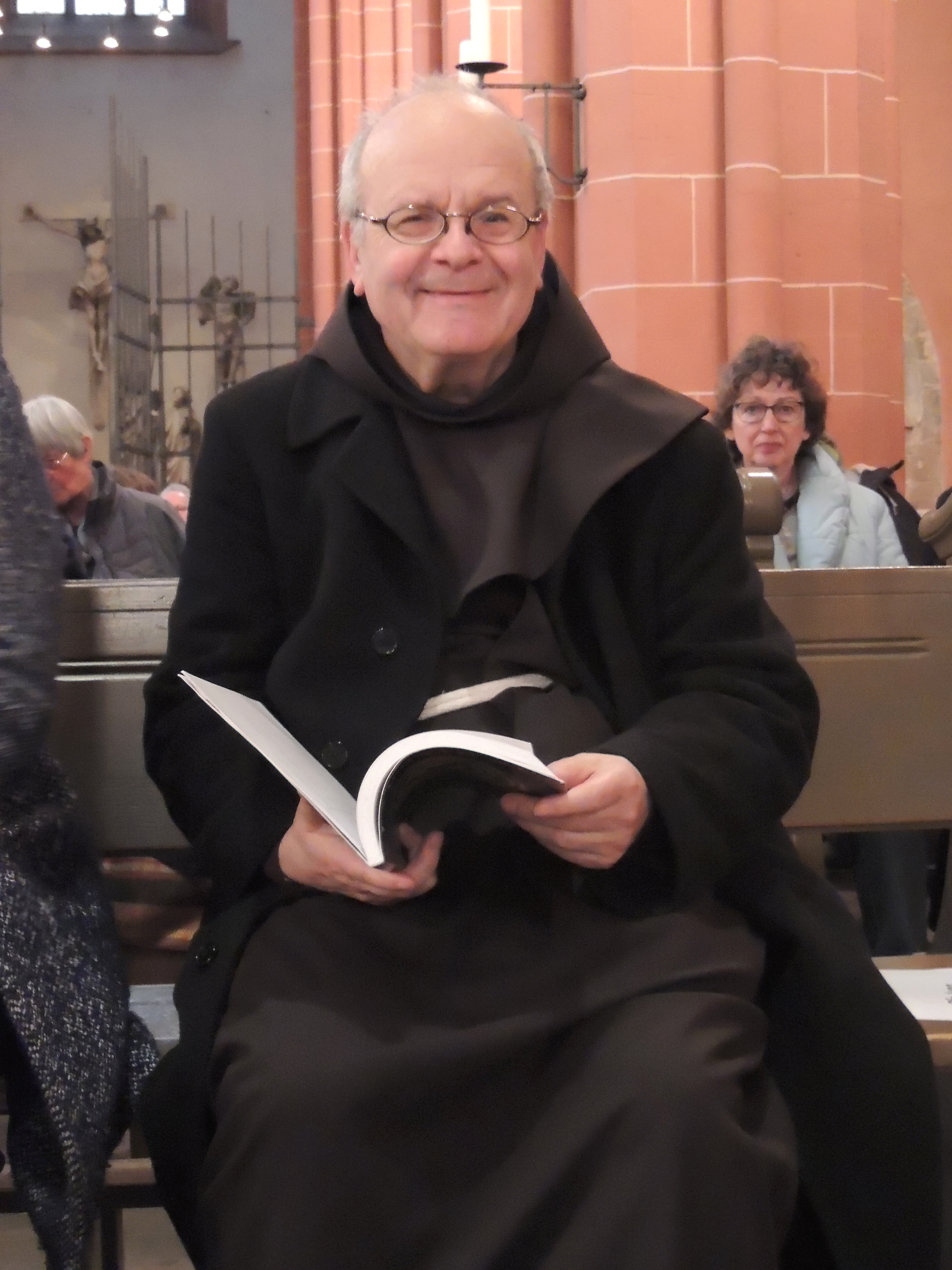 Helmut Schlegel, Franciscan priests, meditation teacher, author and songwriter of Neues Geistliches Lied in the Frankfurt Cathedral at the performance of the oratorio Laudato si' (for which he wrote the text) on 29 January 2017